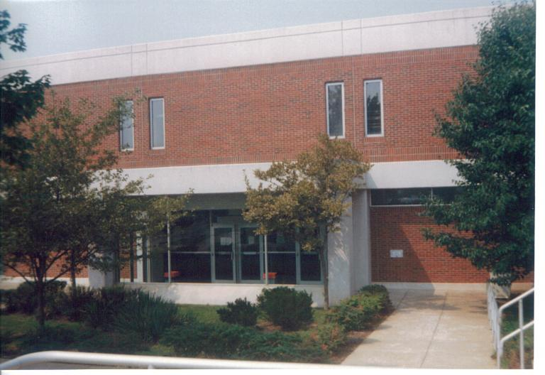 I took photo in July 1987.Billy Hathorn (talk) 21:29, 9 September 2008 (UTC) This is the library, not the administration building.